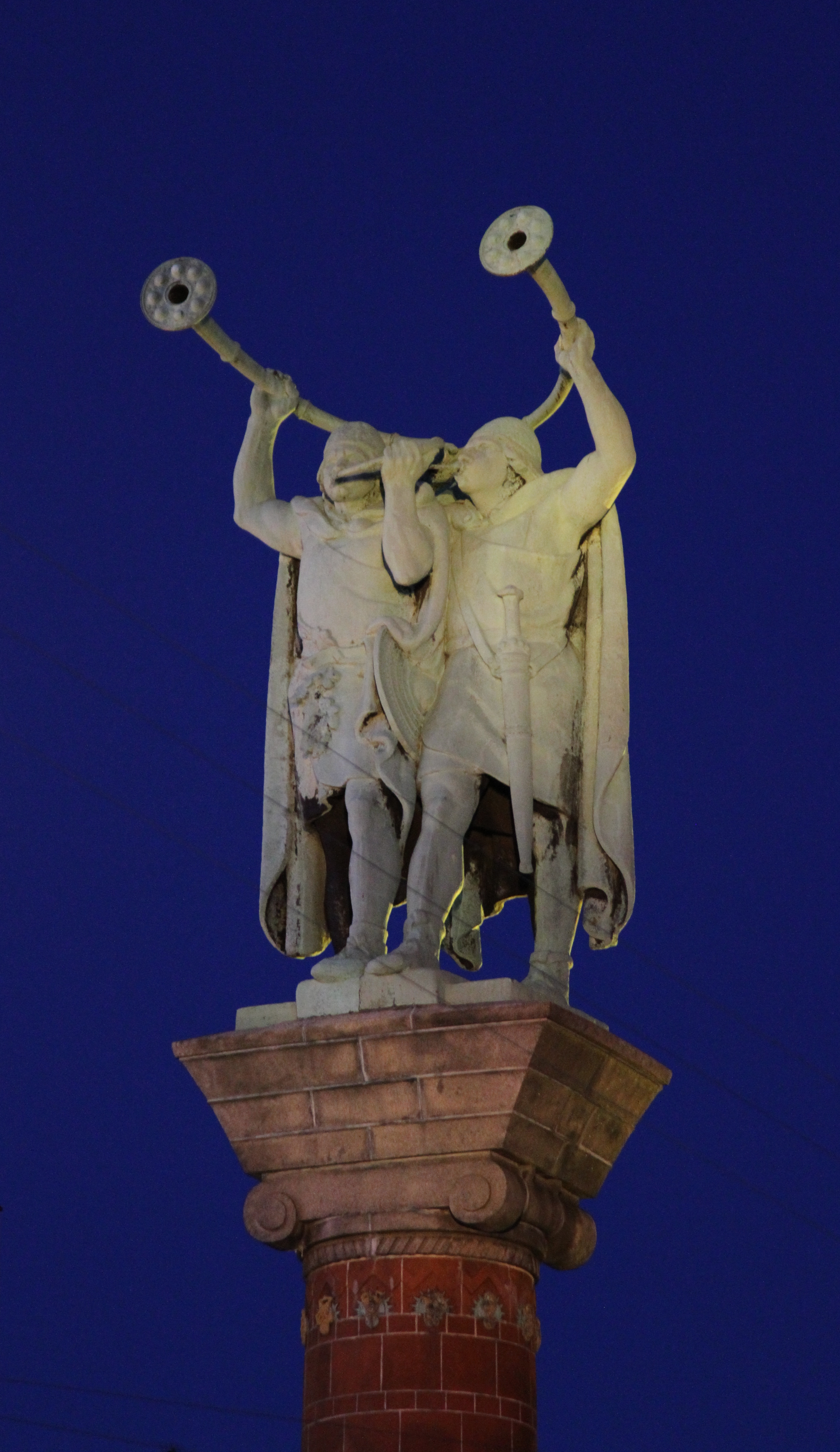 Lurblæserne at Copenhagen Town Hall Square